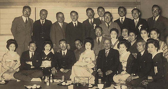 The photo was taken at one of saloons called "Ise-ya" in Kyoto in 1933.